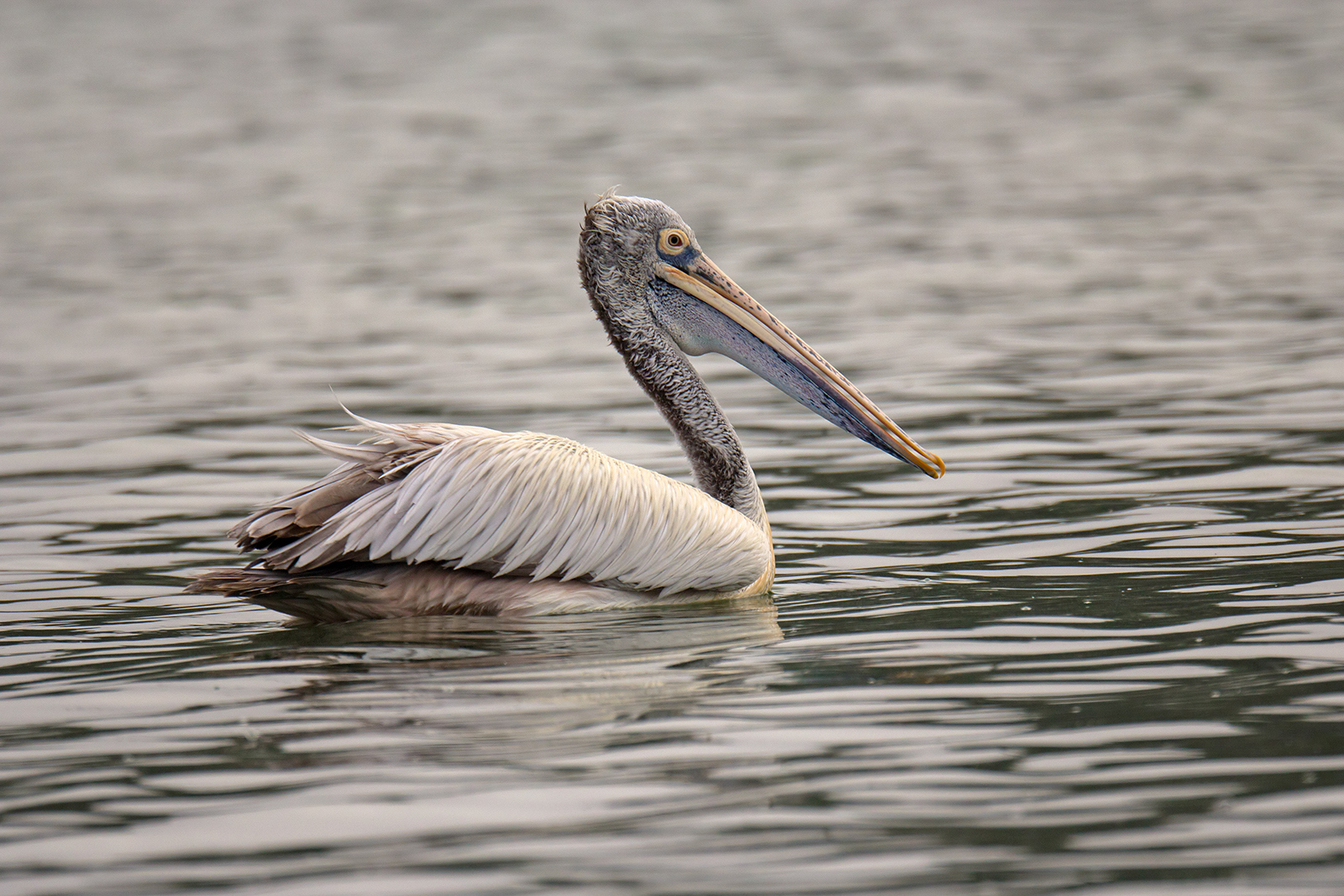 @ Jakkur lake, Bengaluru